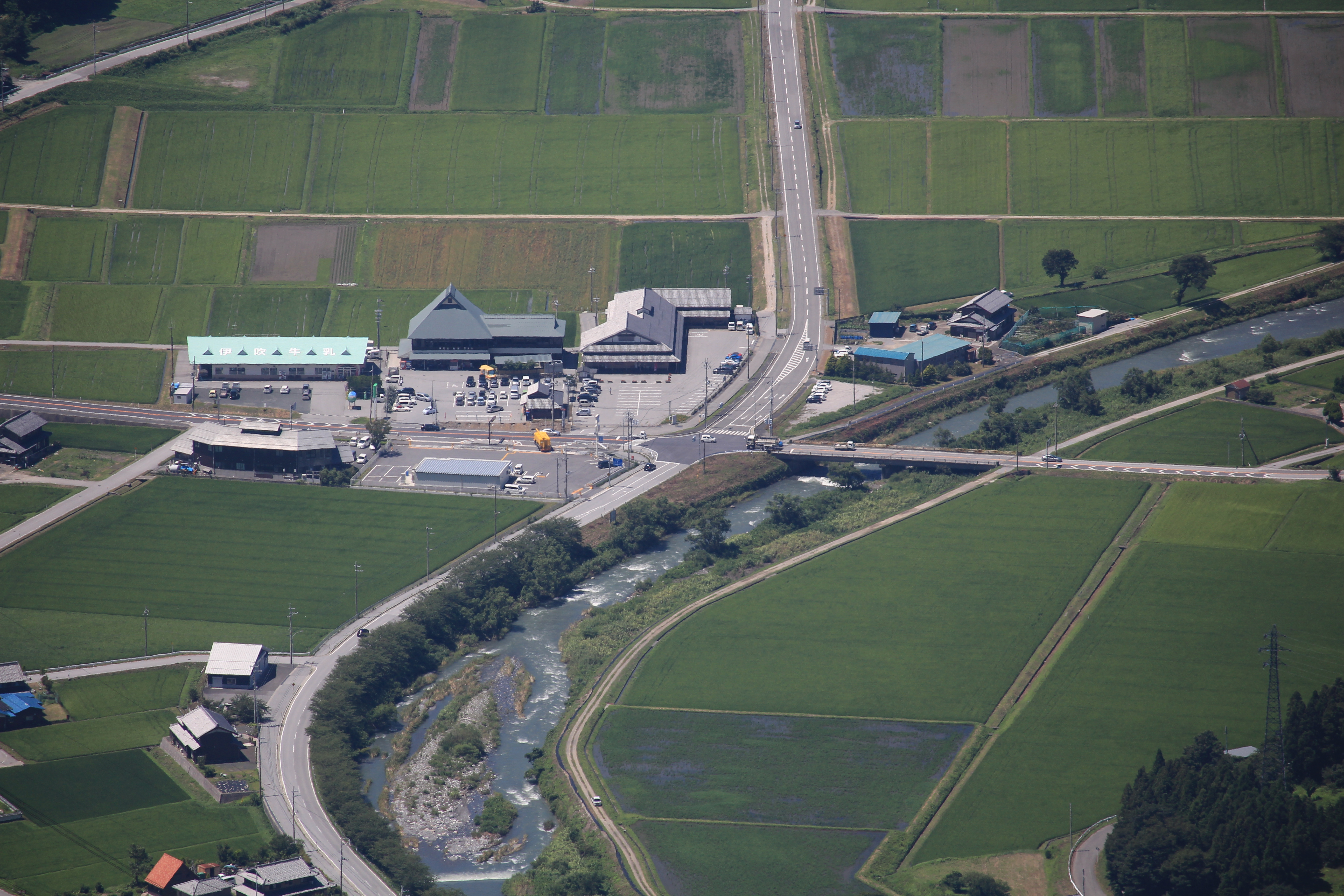 Shiga Prefectural Road Route 40 and Michinoeki Ibukinosato seen from Mount Ibuki in Maibara, Shiga prefecture, Japan.